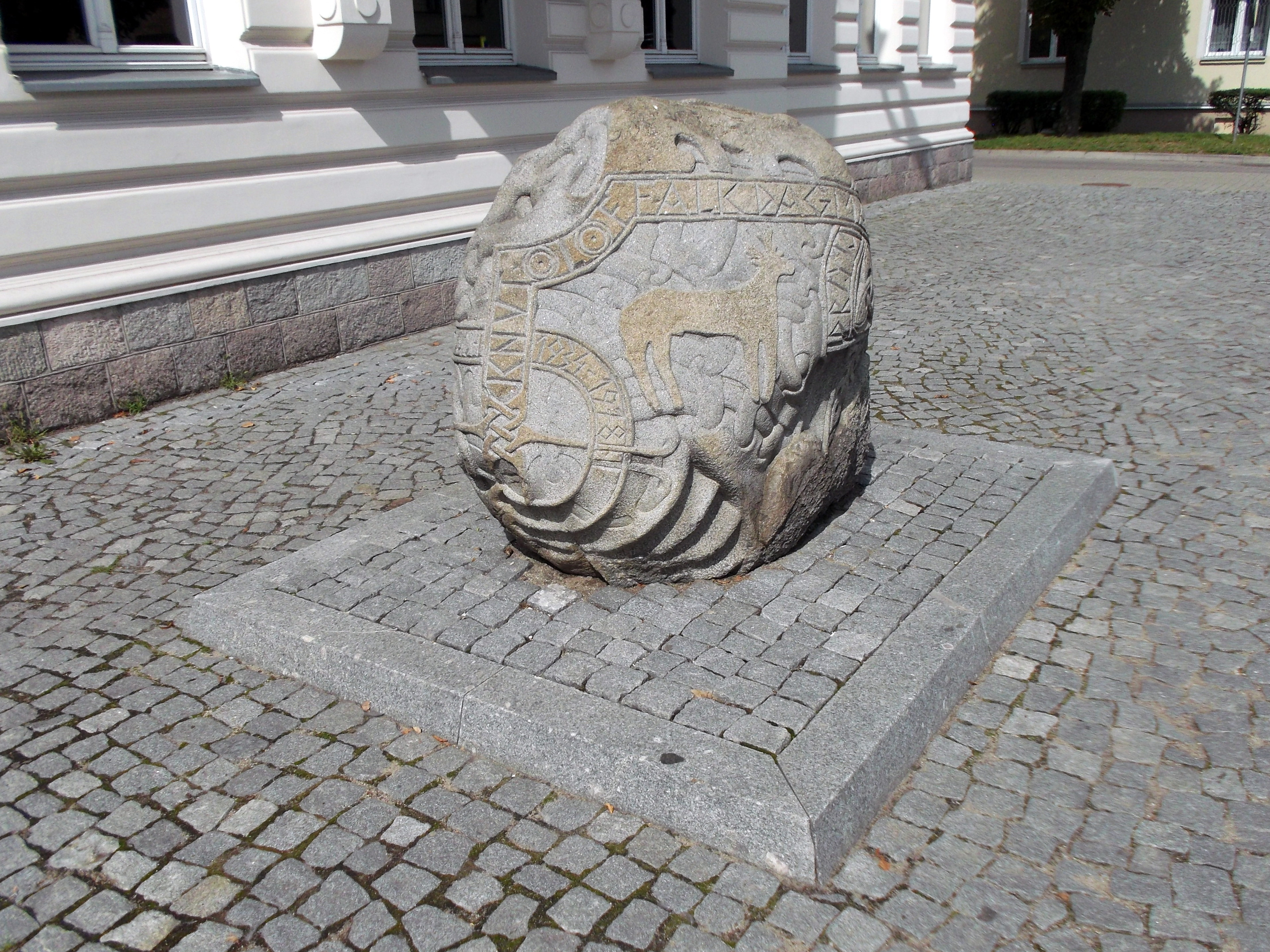 Knut-Olof Falk memorial stone in Suwałki (Poland).